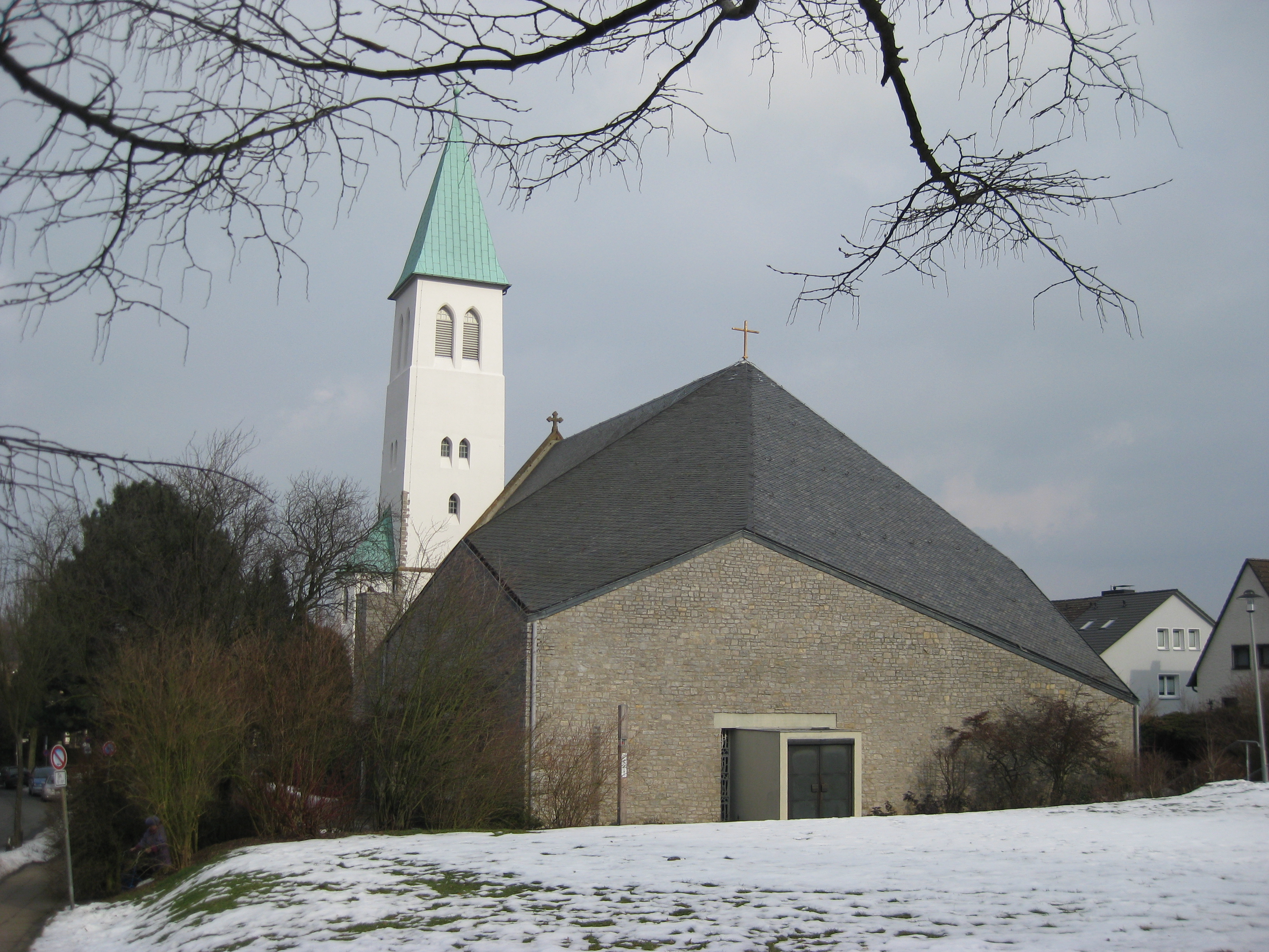 catholic parish church St. Johannes Baptist in Bielefeld-Schildesche